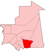 Map of Mauritania showing Hodh el Gharbi region.